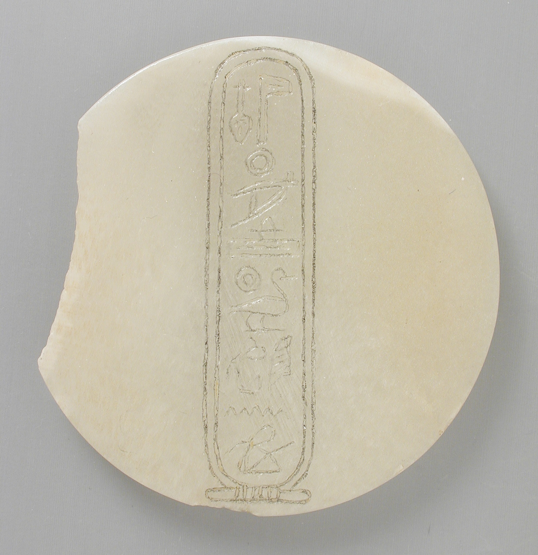 Egypt, Middle Kingdom, 13th Dynasty, reign of Mery-hotep-Re Ini, circa 1700-1698 B.C. Furnishings; Serviceware Calcite Diameter: 2 3/4 in. (7 cm) Gift of Carl W. Thomas (M.80.203.225) Egyptian Art